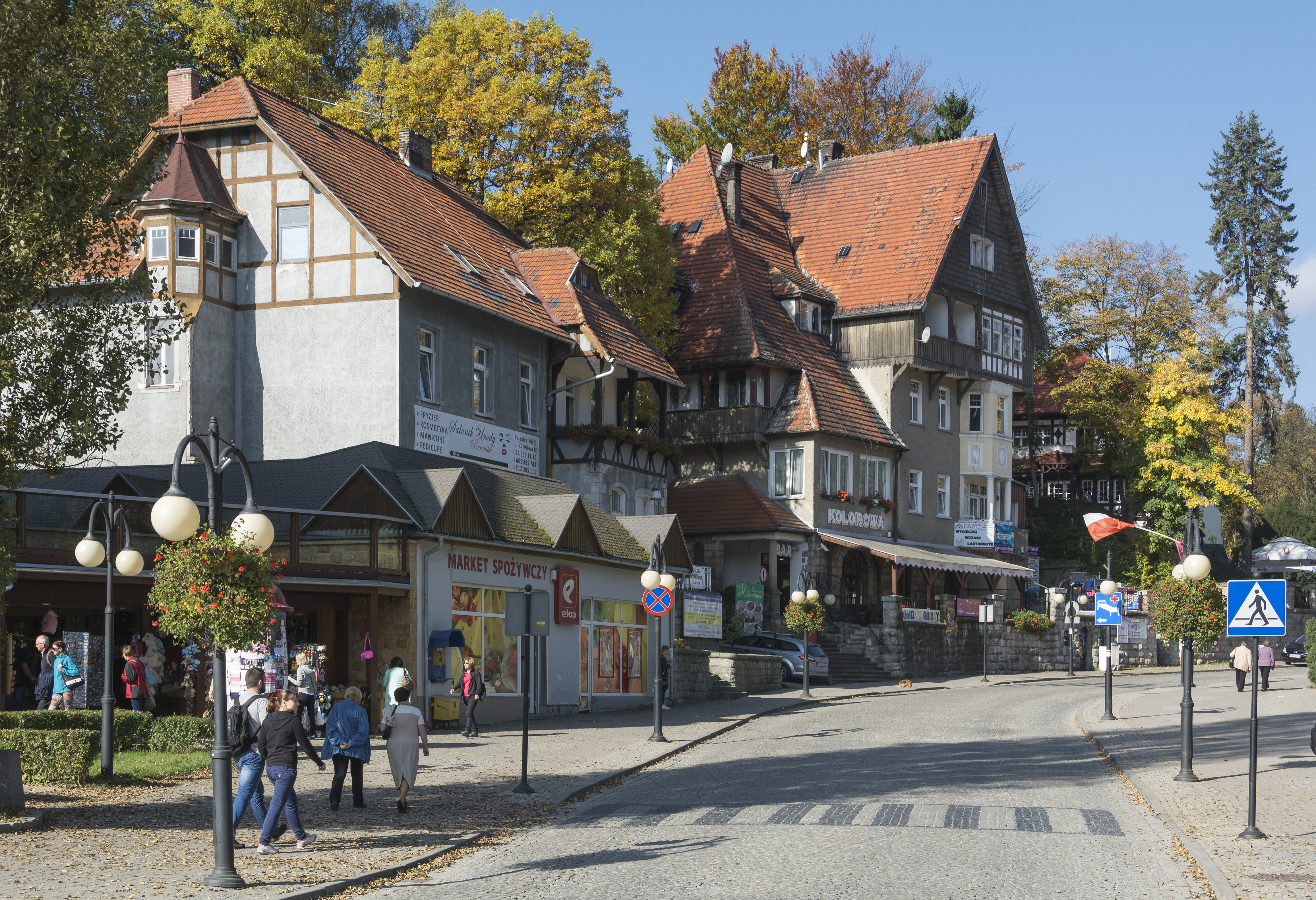 Parkowa Street in Polanica-Zdrój